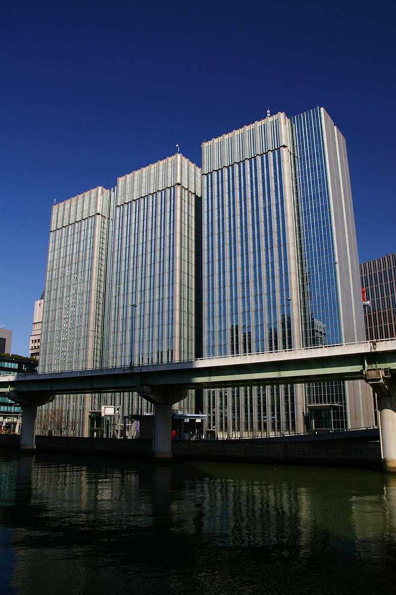 Aqua Dojima Bldg., Osaka city, Japan